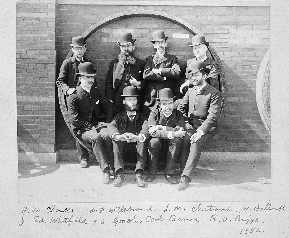 Smithsonian Geologists and Paleontologists outside the Arts and Industries Building, 1886. Included in the photograph are: (top, left to right) Frank Wigglesworth Clark, William F. Hillebrand, T. M. Chatard, William Hallock; (bottom, I to r) James Edward Whitfield, Frank Austin Gooch, Carl Barus, and R. U. Riggs.